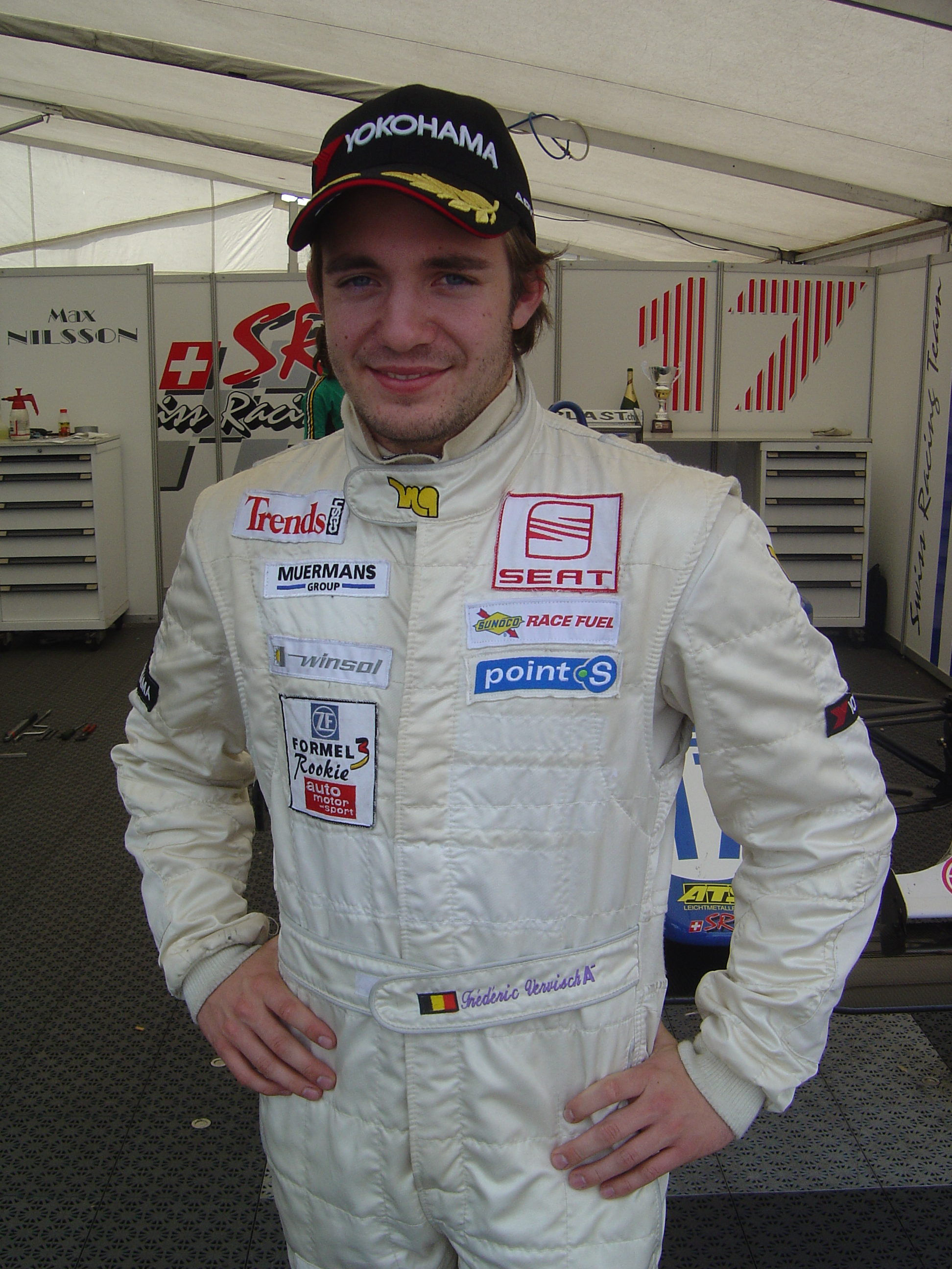 Frédéric Vervisch: the photo was taken during 2008's Jim Clark Revival at Hockenheim